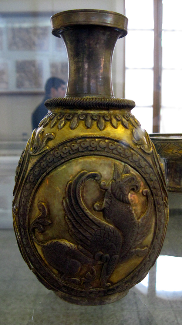 Silver cup. Persian Art. Sassanid dynasty